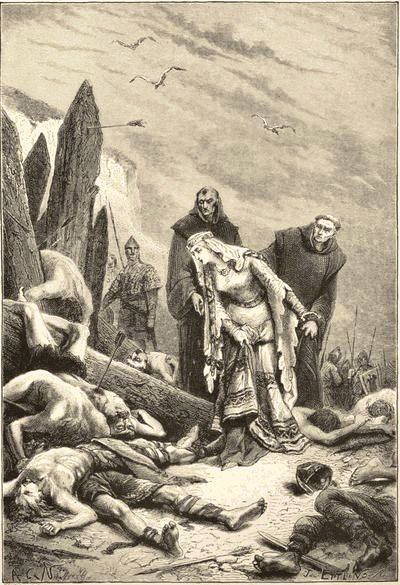 Ealdgyth (Edith), discovering the body of Harold Godwinson.